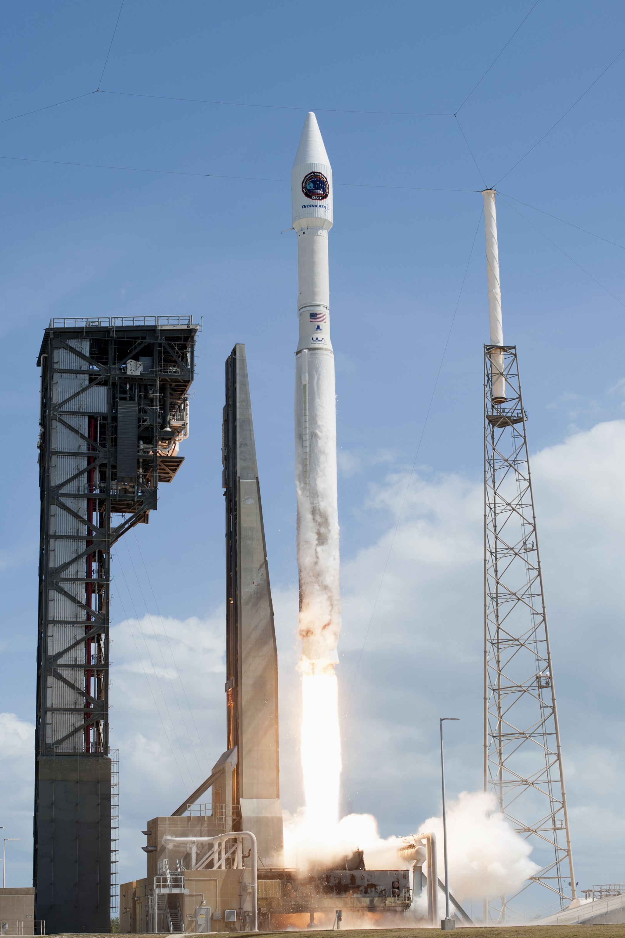 The Orbital ATK Cygnus pressurized cargo module is carried atop the United Launch Alliance Atlas V rocket from Space Launch Complex 41 at Cape Canaveral Air Force Station in Florida. Orbital ATK's seventh resupply services mission, CRS-7, will deliver 7,600 pounds of supplies, equipment and scientific research materials to the International Space Station. Liftoff was at 11:11 a.m. EDT.